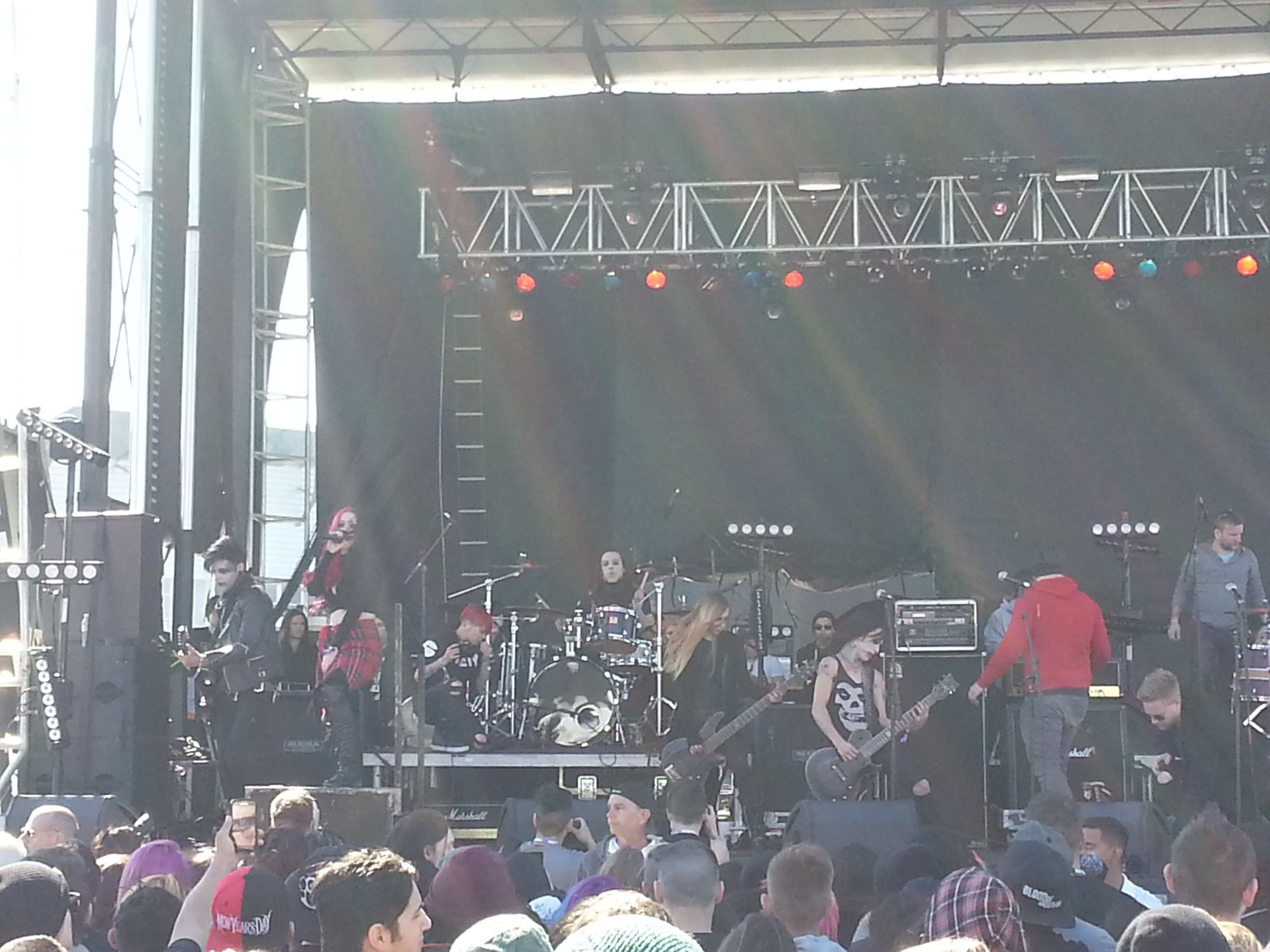 New Years Day performing in 2016